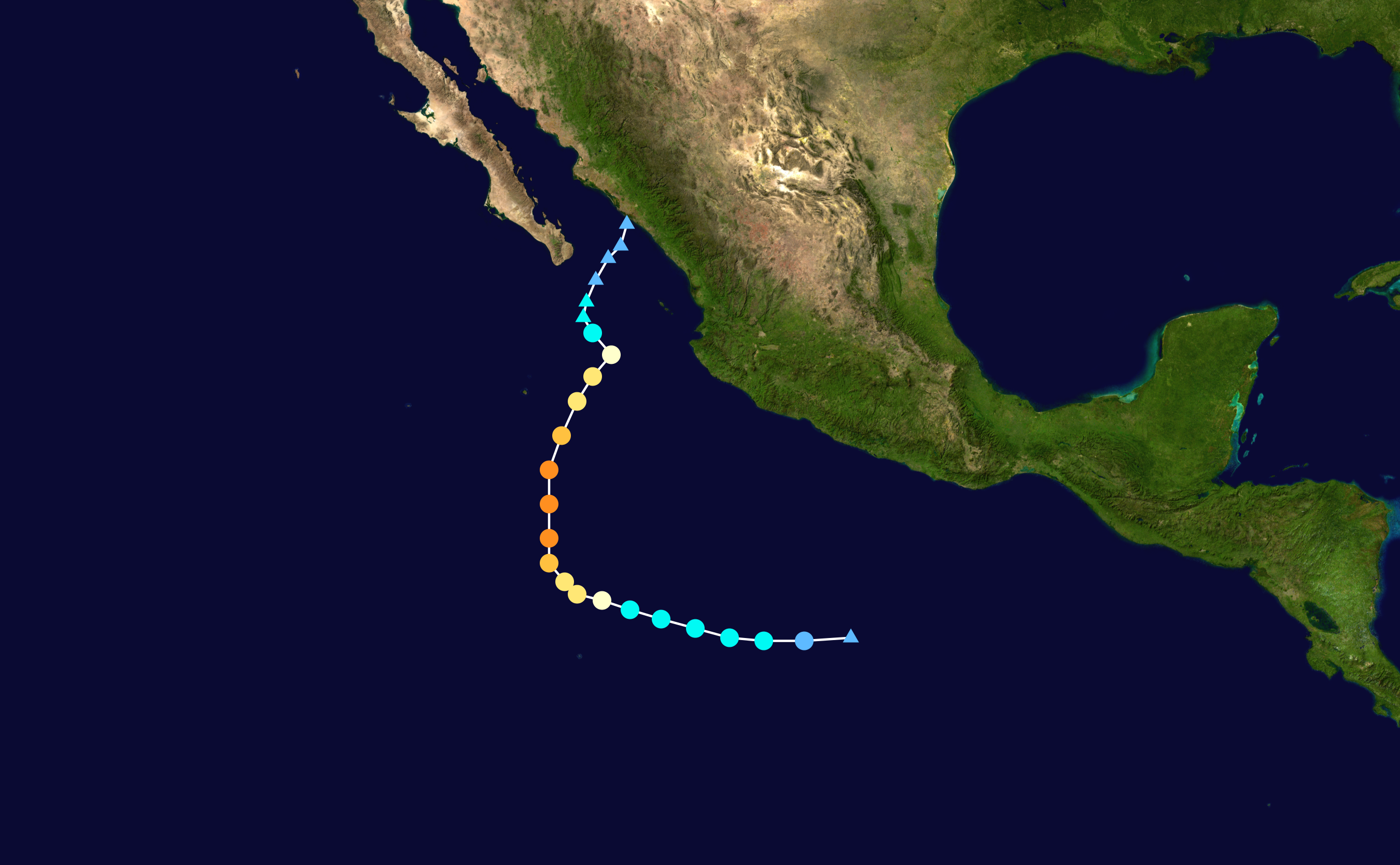 Track map of Hurricane Sandra of the 2015 Pacific hurricane season. The points show the location of the storm at 6-hour intervals. The colour represents the storm's maximum sustained wind speeds as classified in the Saffir–Simpson scale (see below), and the shape of the data points represent the nature of the storm, according to the legend below. Saffir–Simpson scale Tropical depression≤38 mph≤62 km/h Category 3111–129 mph178–208 km/h Tropical storm39–73 mph63–118 km/h Category 4130–156 mph209–251 km/h Category 174–95 mph119–153 km/h Category 5≥157 mph≥252 km/h Category 296–110 mph154–177 km/h Unknown Storm type Tropical cyclone Subtropical cyclone Extratropical cyclone / Remnant low / Tropical disturbance / Monsoon depression